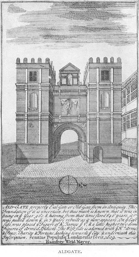 Aldgate print executed about 1609 From a set of anonymous prints commissioned for the Corporation of the City of London, about 1600-1610.